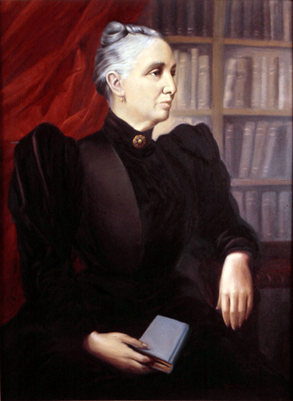 Oil on canvas. Soledad Acosta de Samper, Colombian writer and journalist.